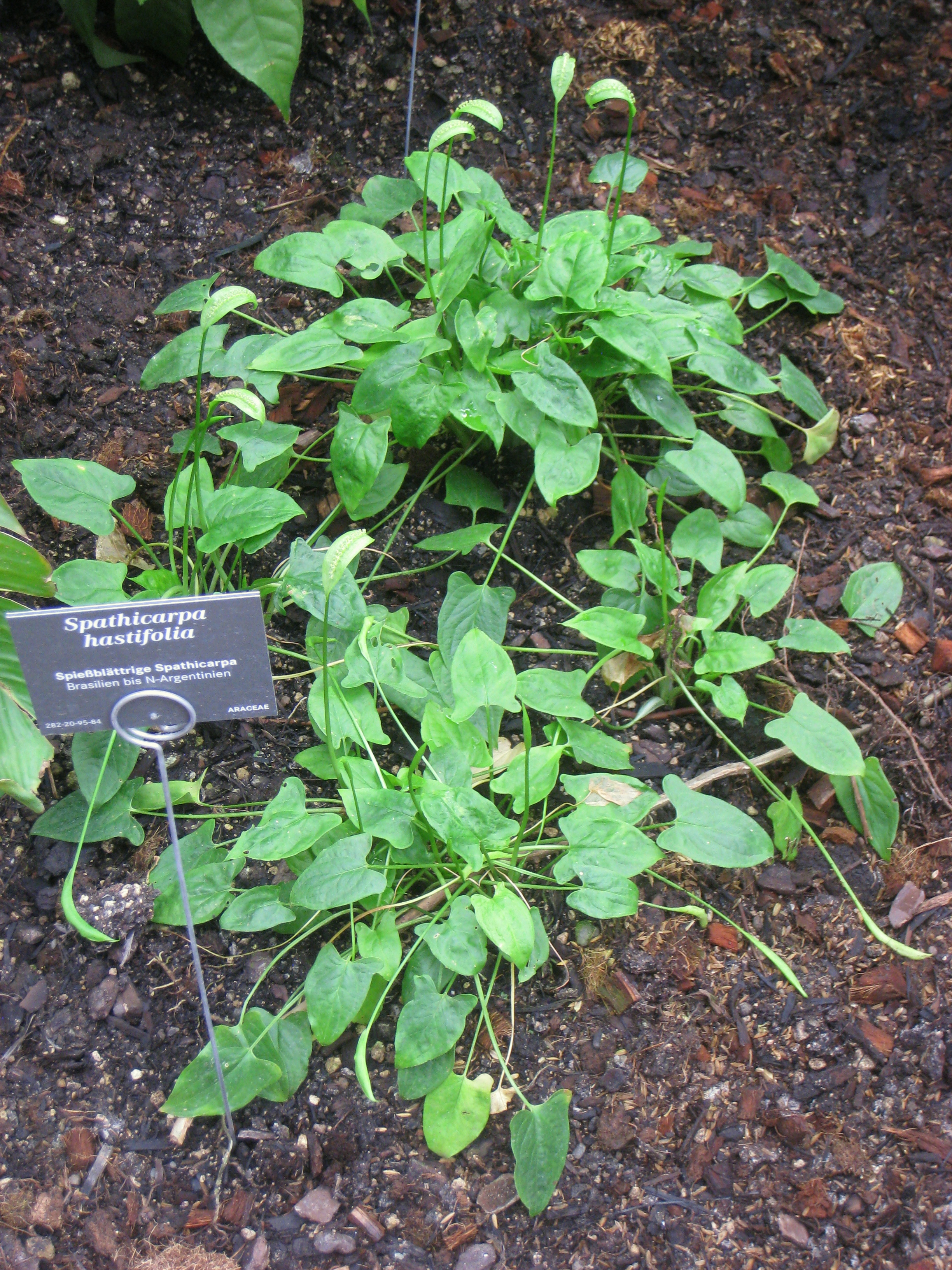 Spathicarpa hastifolia specimen in the Botanischer Garten, Berlin-Dahlem (Berlin Botanical Garden), Berlin, Germany.